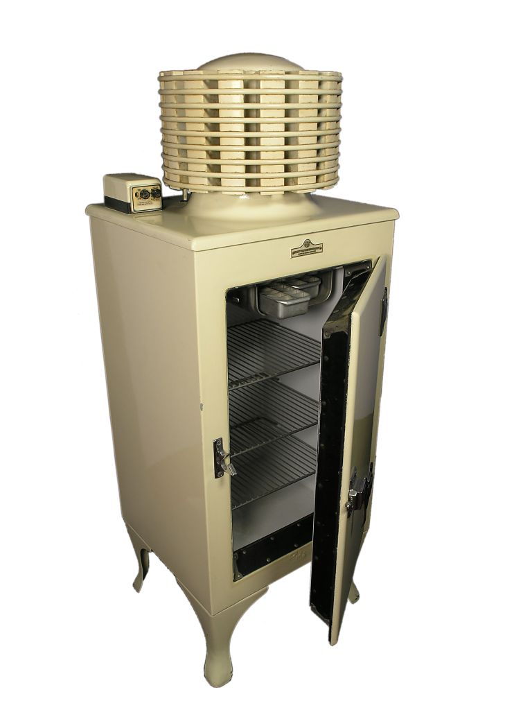 B.T.H. 'Bee Hive' Refrigerator. Large, cream coloured. Circular heat exchanger on top. Four legs. Electirc. Made in Rugby, England. Editing Undertaken: Auto Levels, Unsharp Mask, background removed